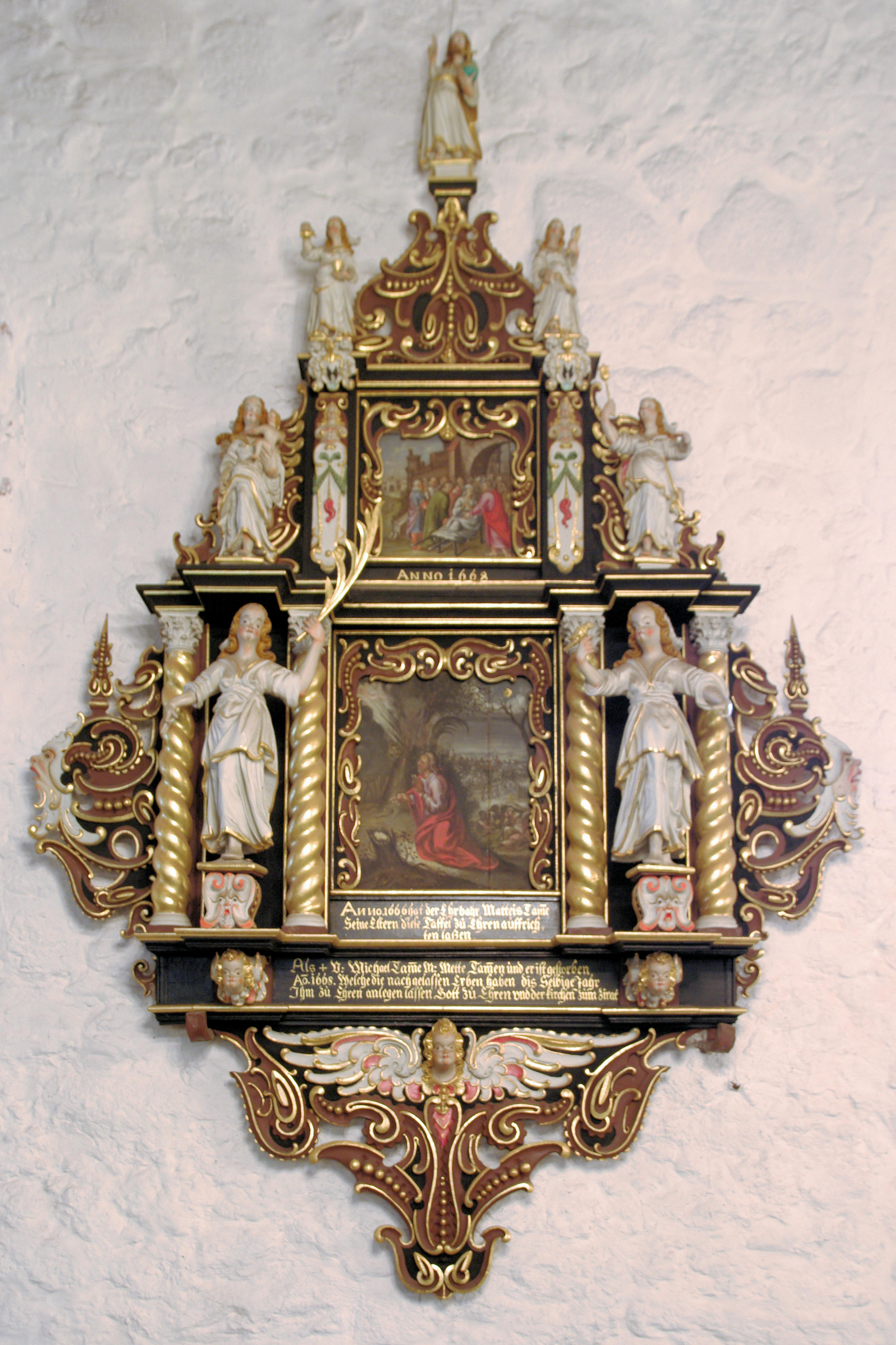 Epithaph